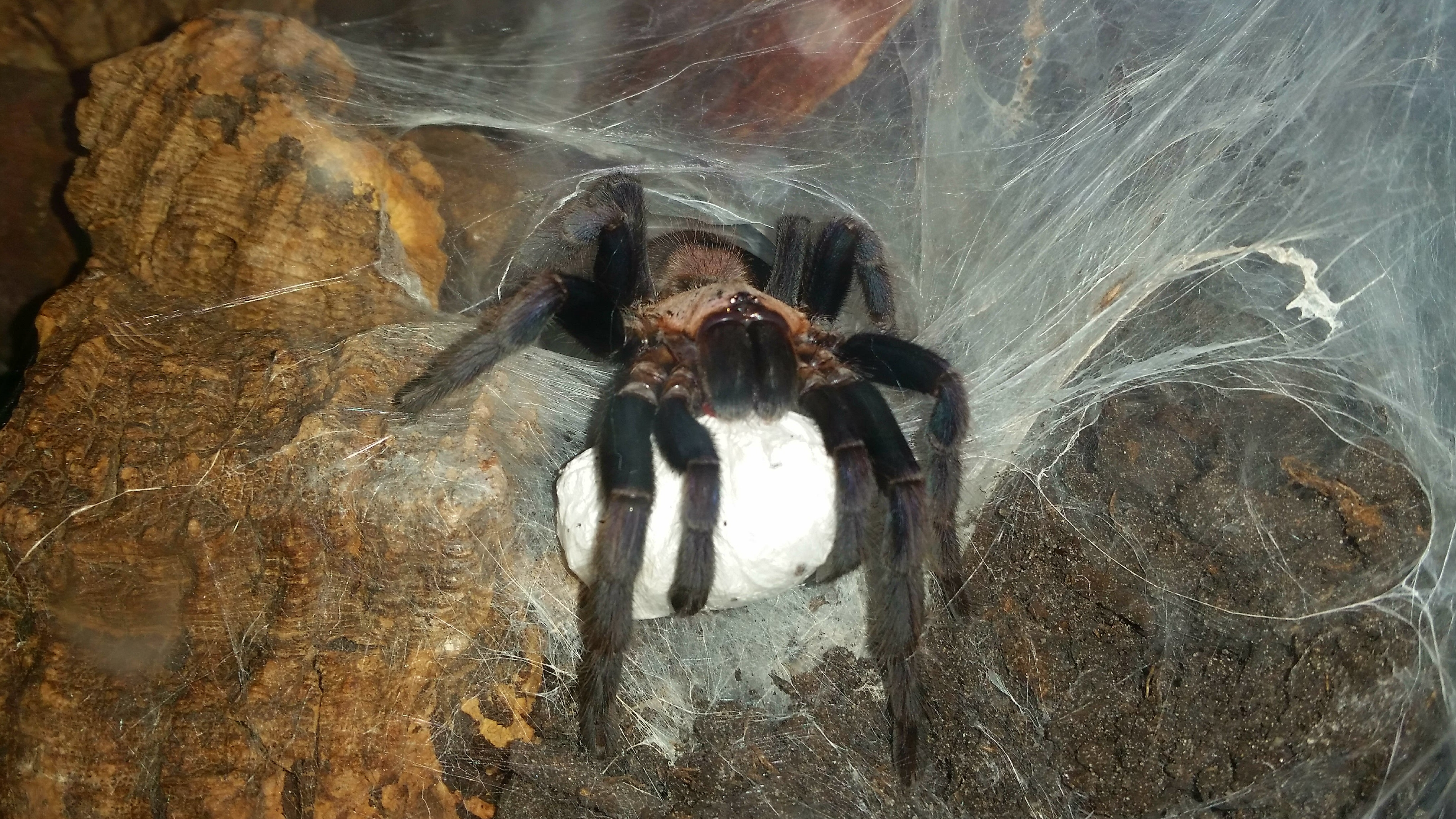 Chilobrachys fimbriatus with eggsack